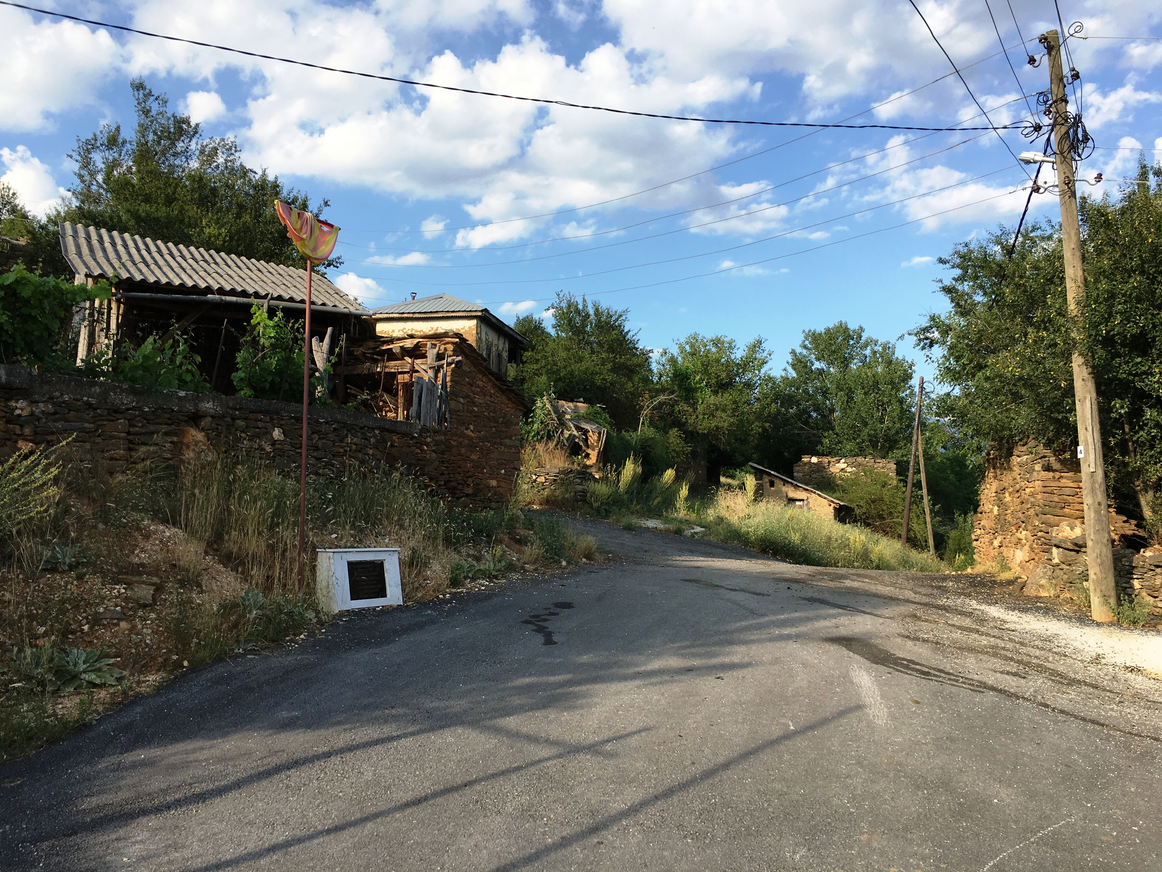 The mid-village of Mogilec